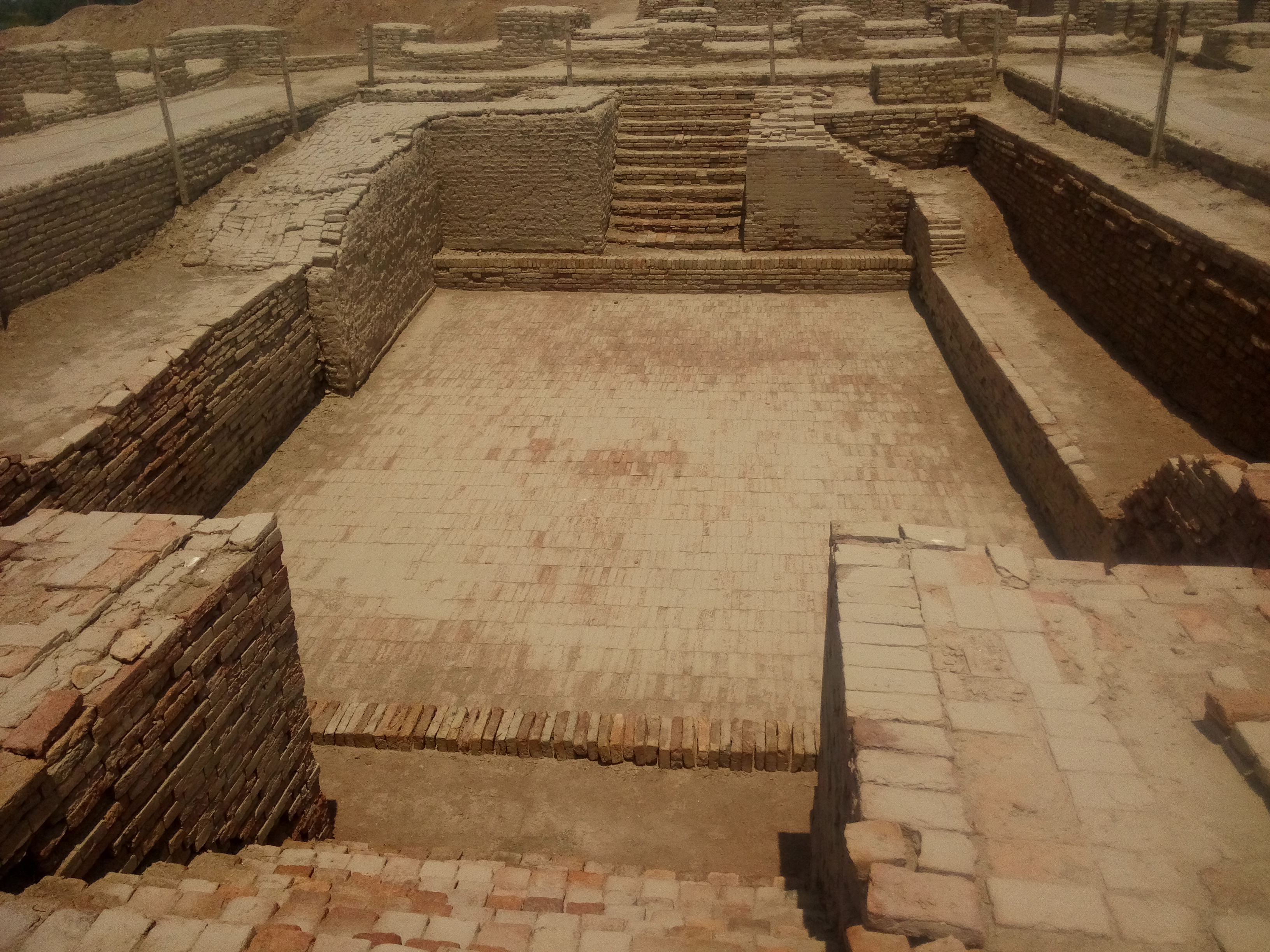 The Great Bath of Moenjodaro This is a photo of a monument in Pakistan identified as the SD-42